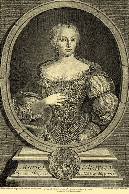 Portrait of Maria Theresia